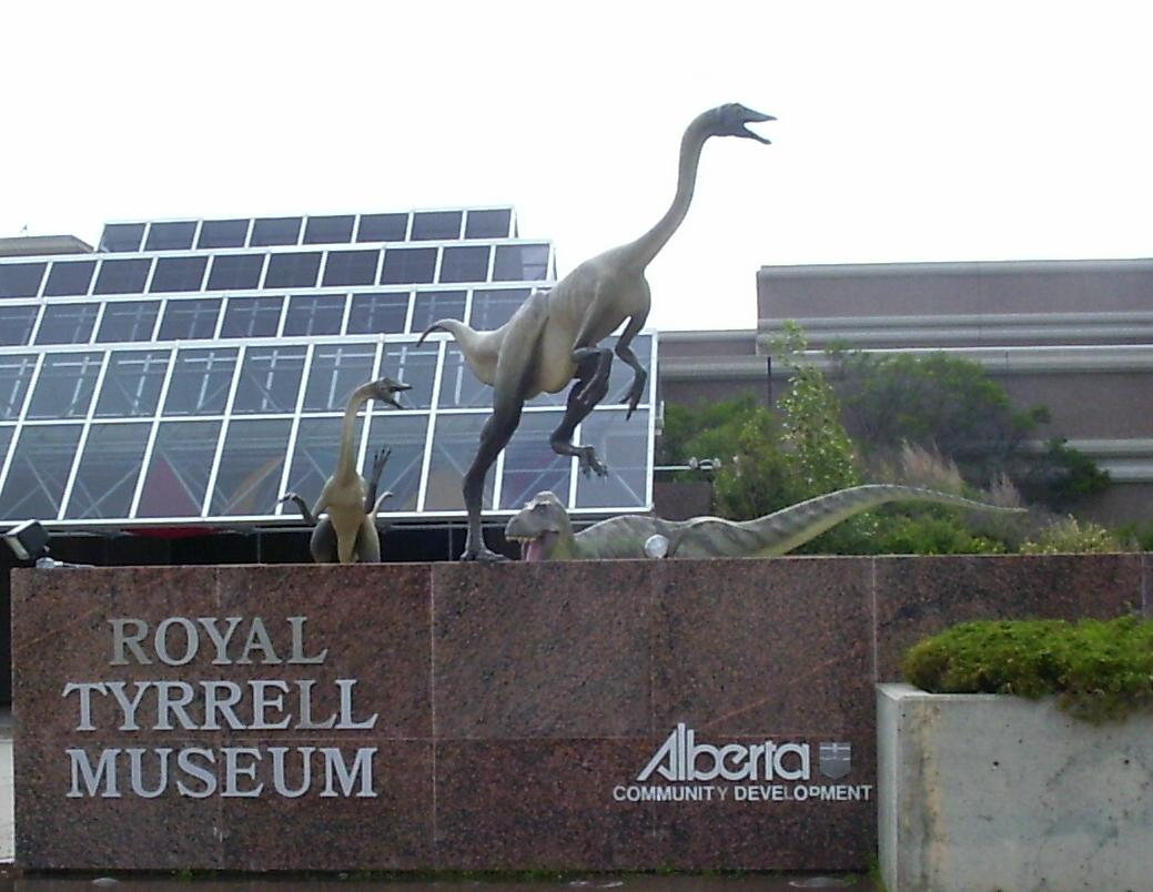 Albertosaurus and Ornithomimus at the entrance to the Royal Tyrrell Museum of Palentology, located in Drumheller, Alberta, Canada. Photo taken by Yetiwriter, June 2004.